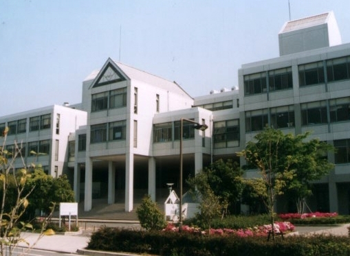 Canadian Academy (CA), founded in 1913, is an independent pre-K–12 international school in Kobe, Japan on the man-made Rokko Island. Author: Fred Alsdorf, original image taken by self (original image on film, scanned for converting to digital format--jpeg), no URL, fair use because this is a self-created image and is being released into the public domain. I am affixing the tag "pd-self" into the image file name, "canadian_academy2.pd-self.jpg".